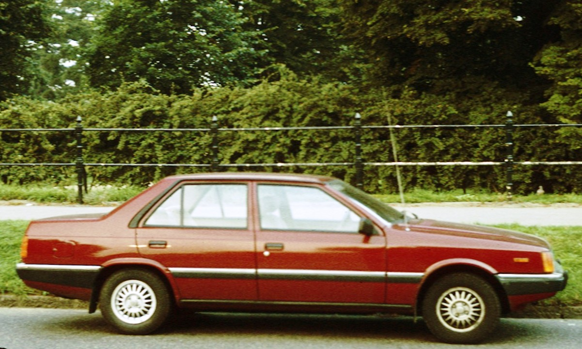 Hyundai Stellar side profile Cambridge, England